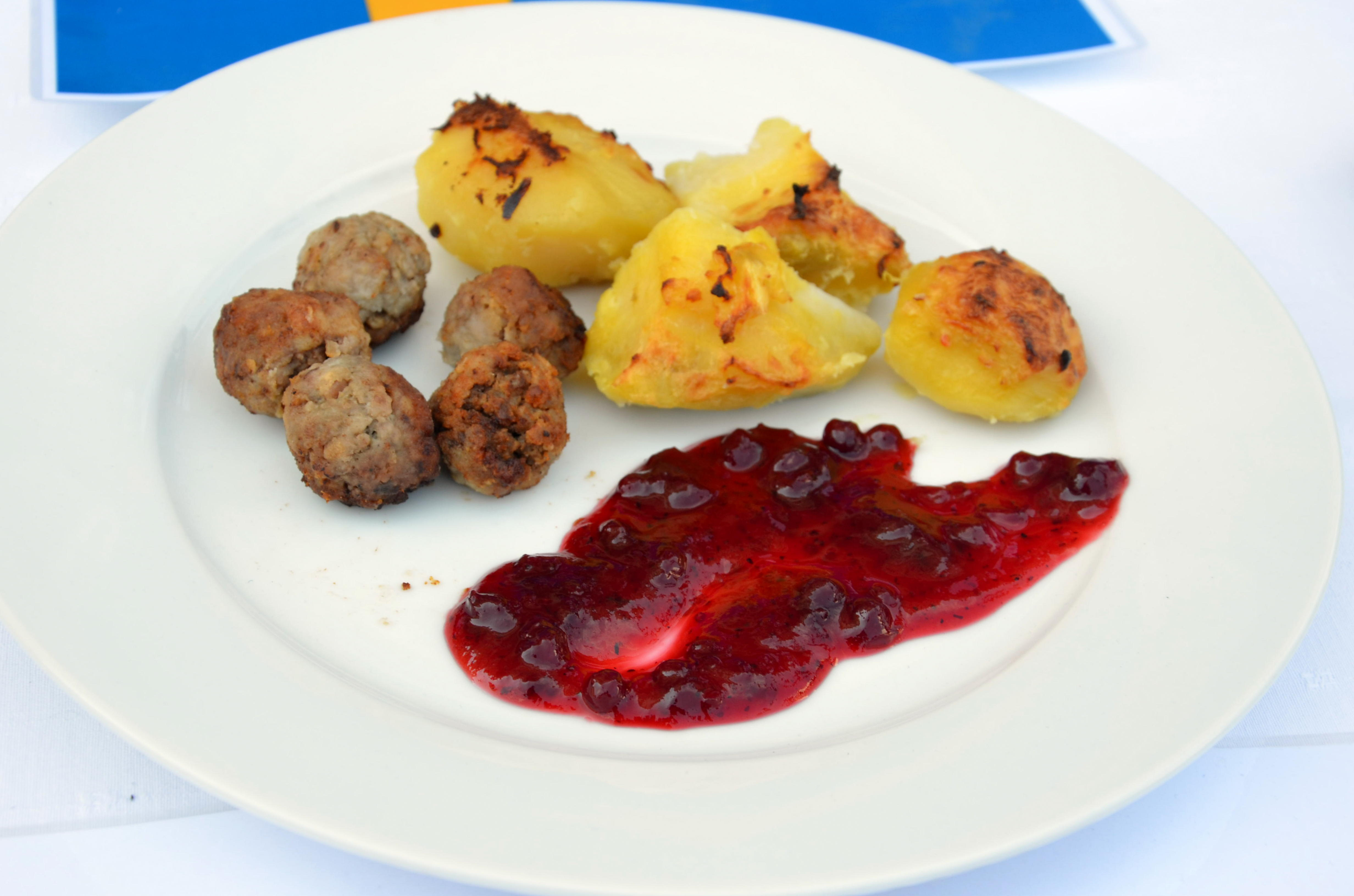 Foreign cuisines in Poland